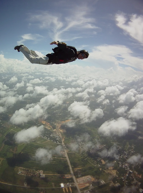 VENEZUELA